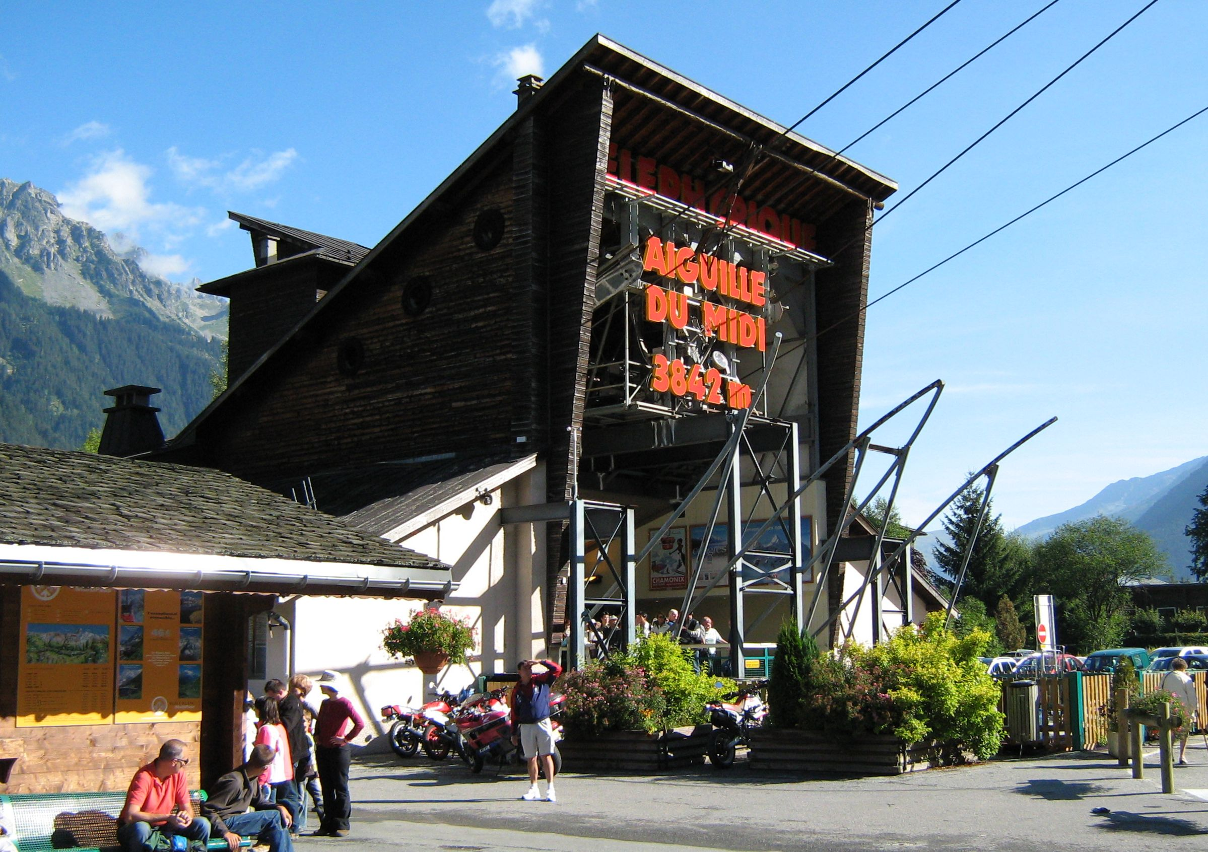 The lower station of the Aiguille du Midi Cableway in Chamonix. August 2007.